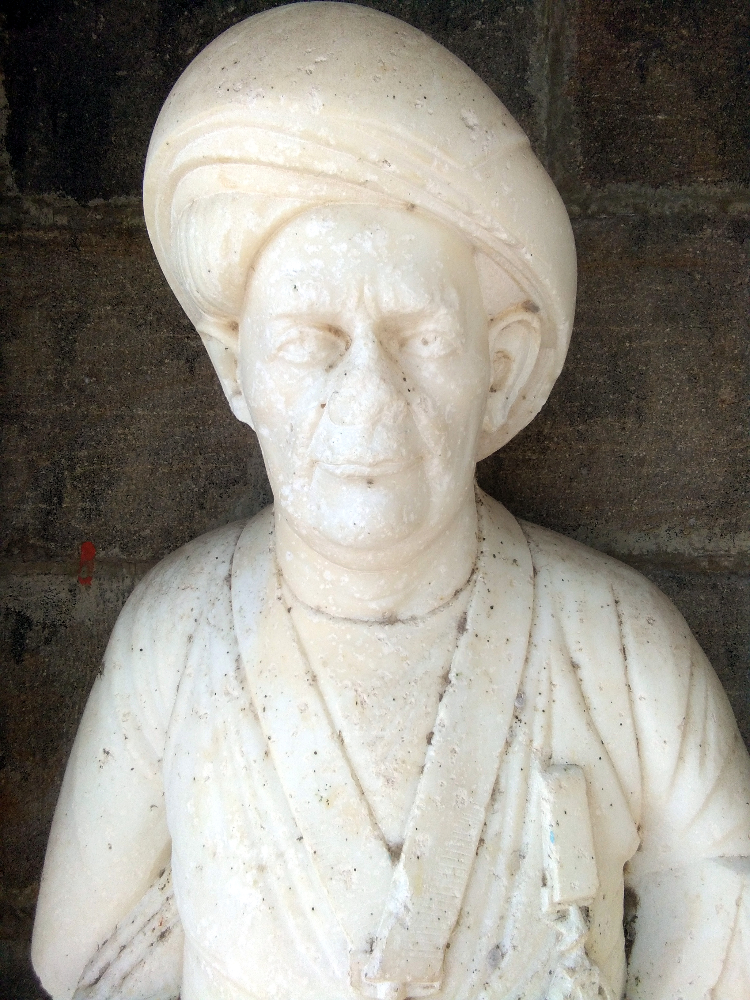 Gaurishankar-udayshankar-oza-statue-at-gaurishankar-lake